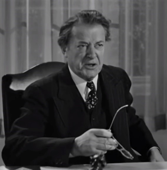 Vaughan Glaser in Meet John Doe - cropped screenshot